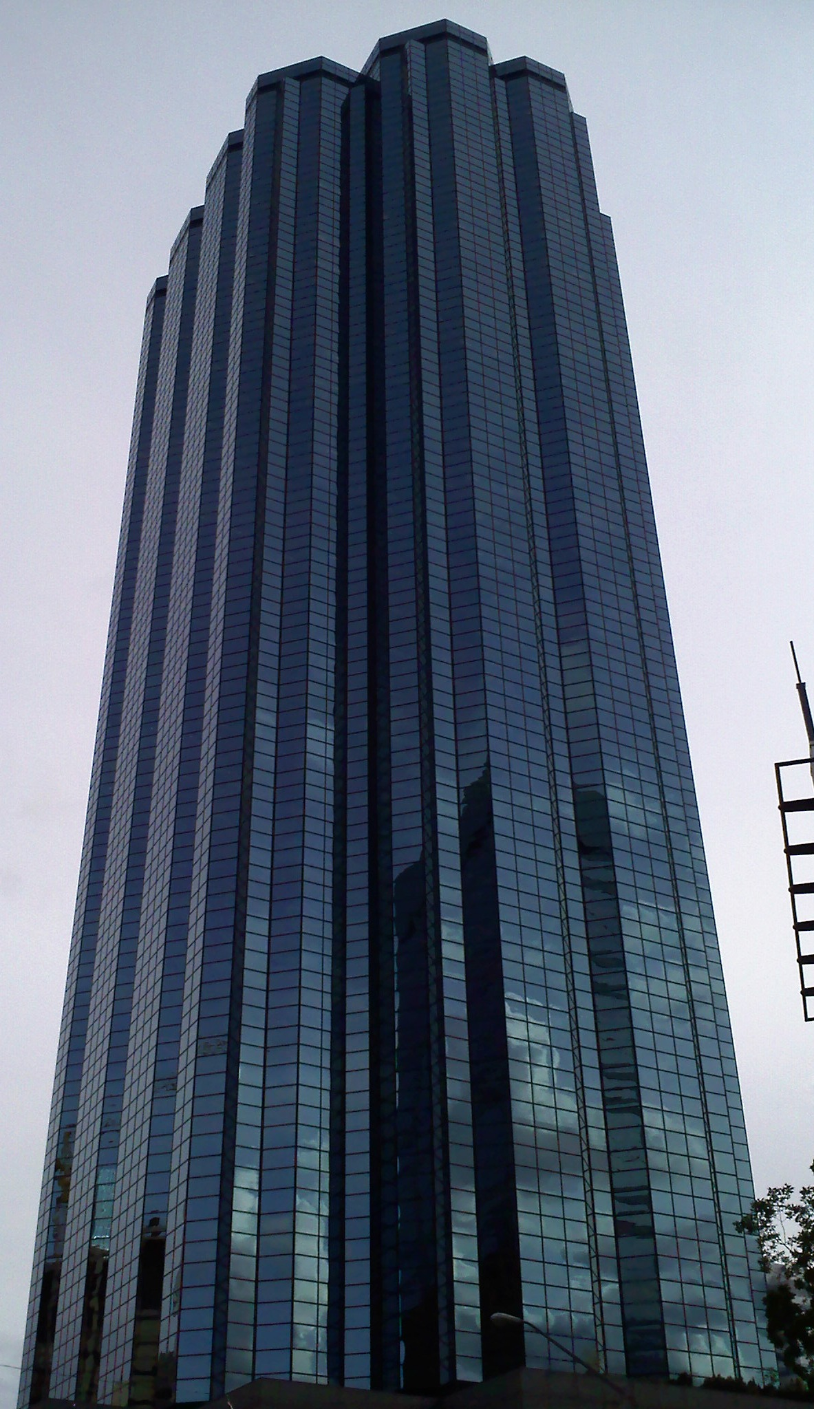 Northeast side of Manulife Place, Edmonton, from 101 Street & 102 Avenue.